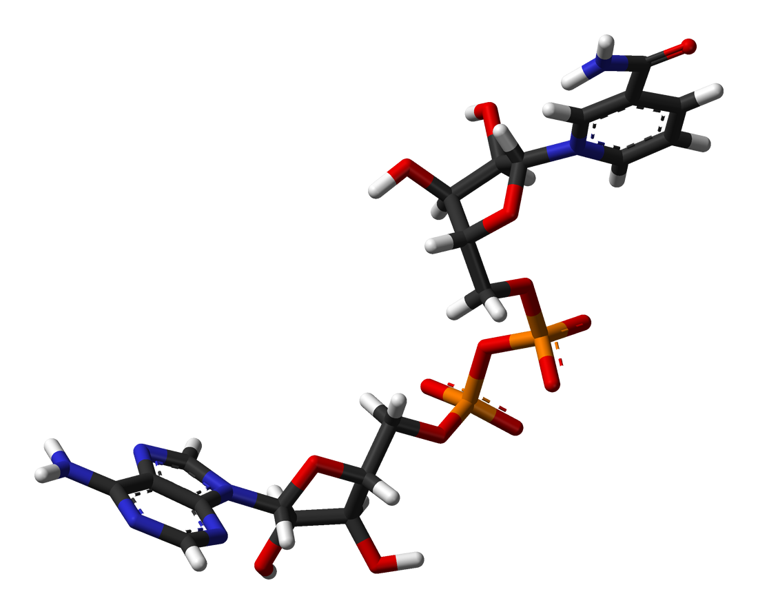 Stick model of NAD+, based on x-ray diffraction data from PDB 2FM3